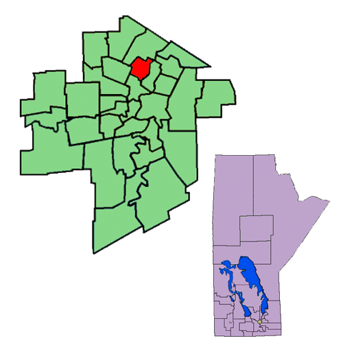 The 1999-2011 boundaries for the St. Johns electoral district highlighted in red